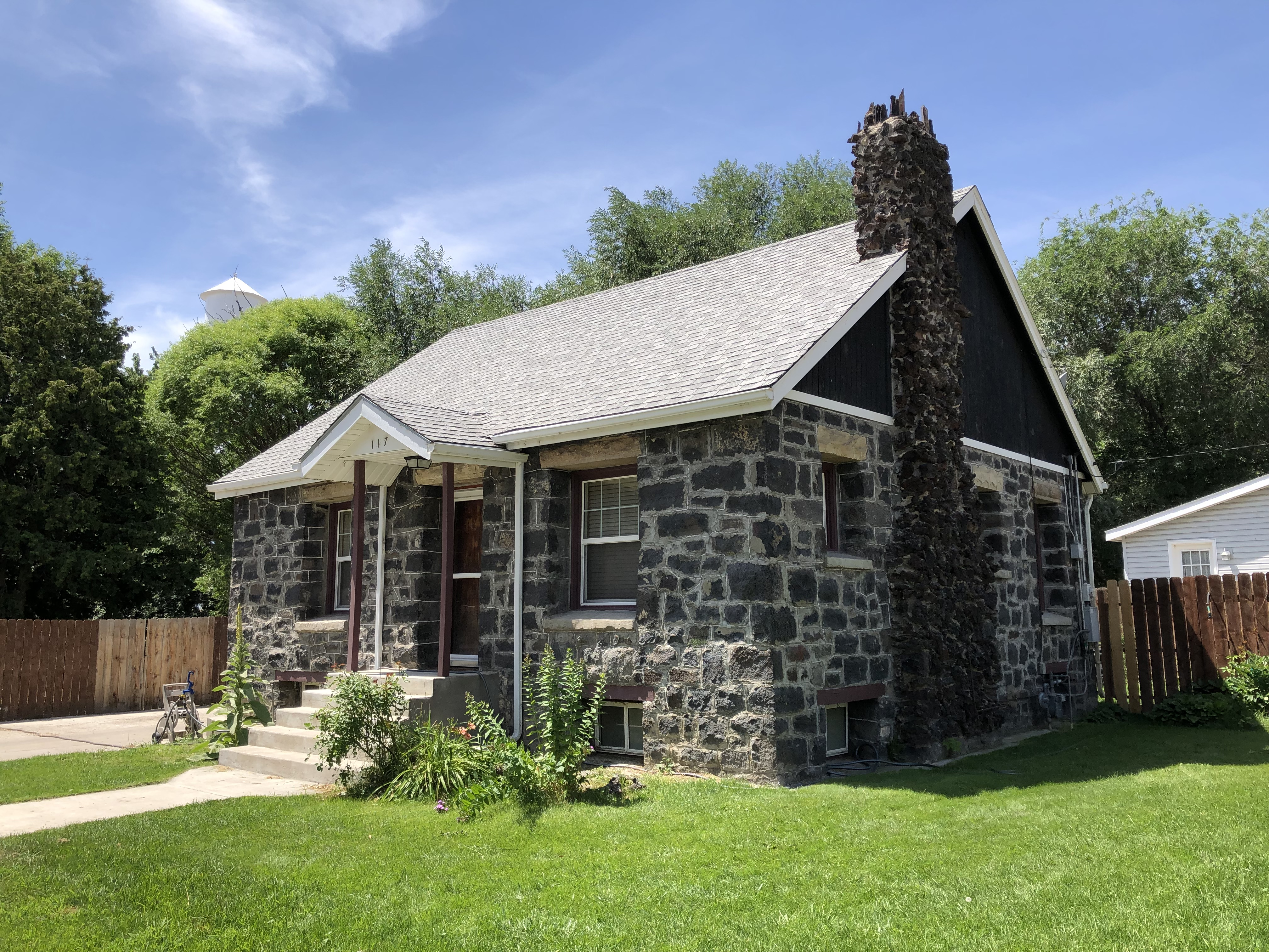 Jose and Gertrude Anasola House, 120 North Alta Street, Shoshone, Idaho